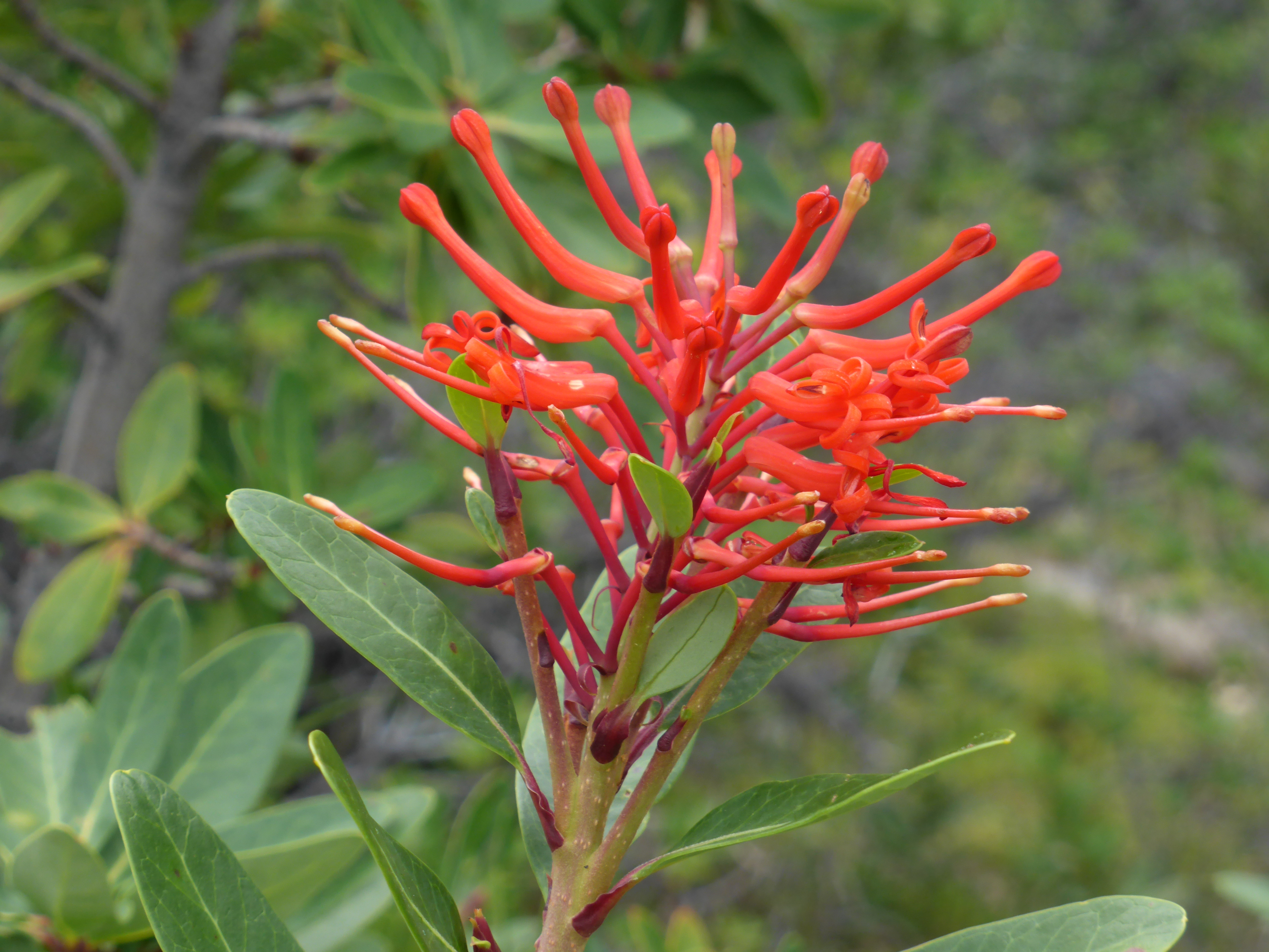 "Chilean firebush" o "Chilean firetree".